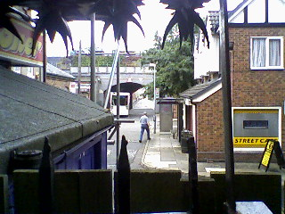 Part of the Coronation Street set, looking down the fictitious Rosamund Street towards the viaduct and showing the Street Cars taxi office (right) and part of the Prima Doner kebab takeaway (left).